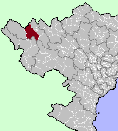 Sin Ho District, Lai Chau Province, Vietnam.